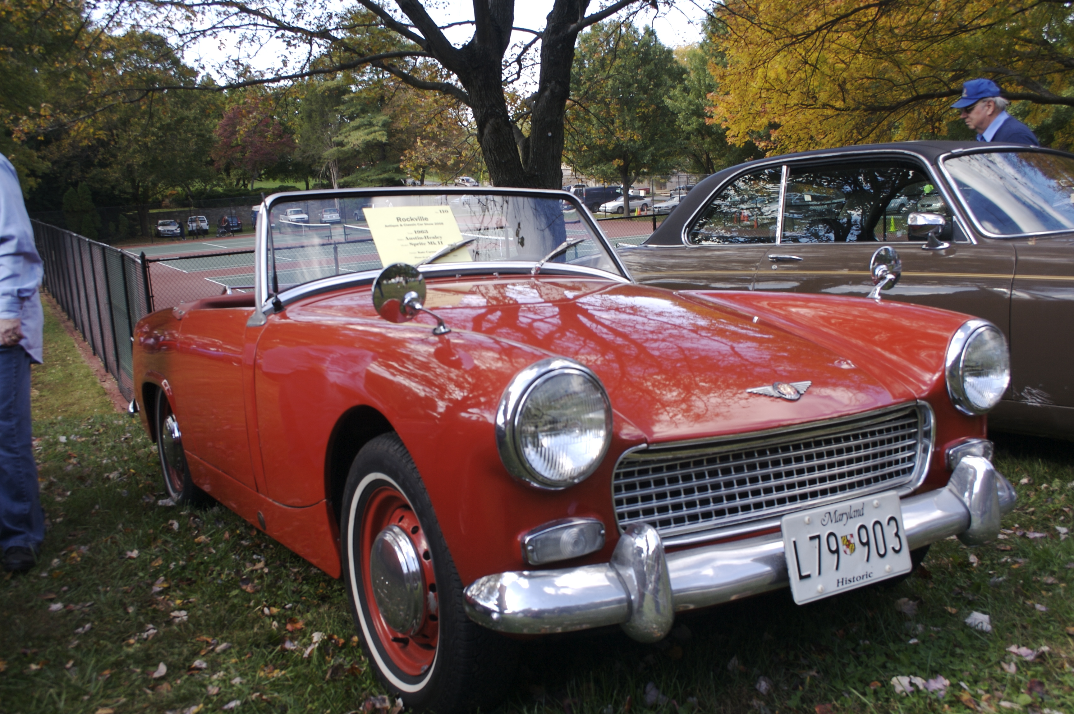 1963 Austin Healey Sprite MK II at Rockville Antique and Classic Car Show, Rockville, MD